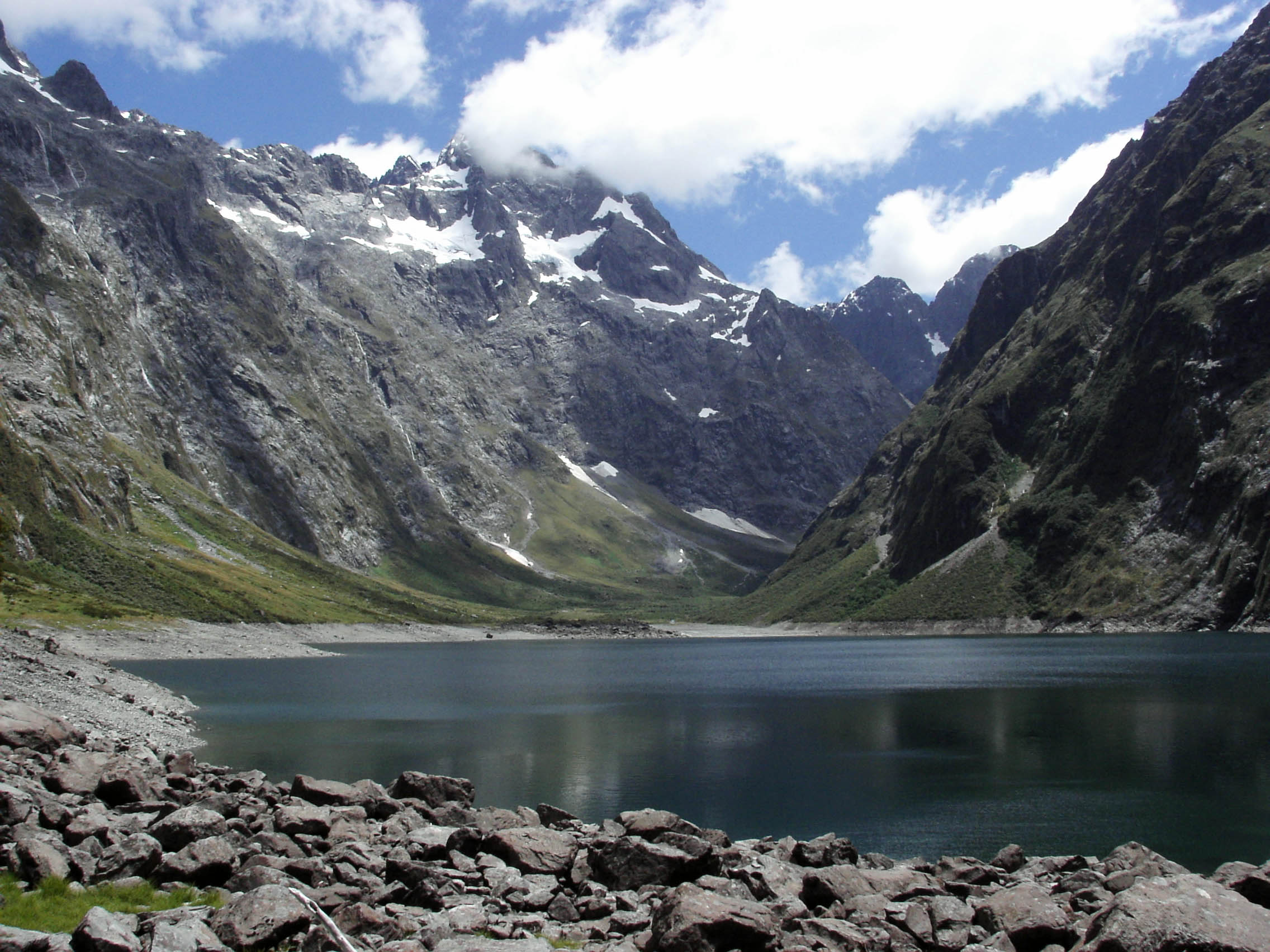 Lake Marian in Fiordland National Park near the Homer Tunnel on the SH 94 road to Milford Sound, New Zealand